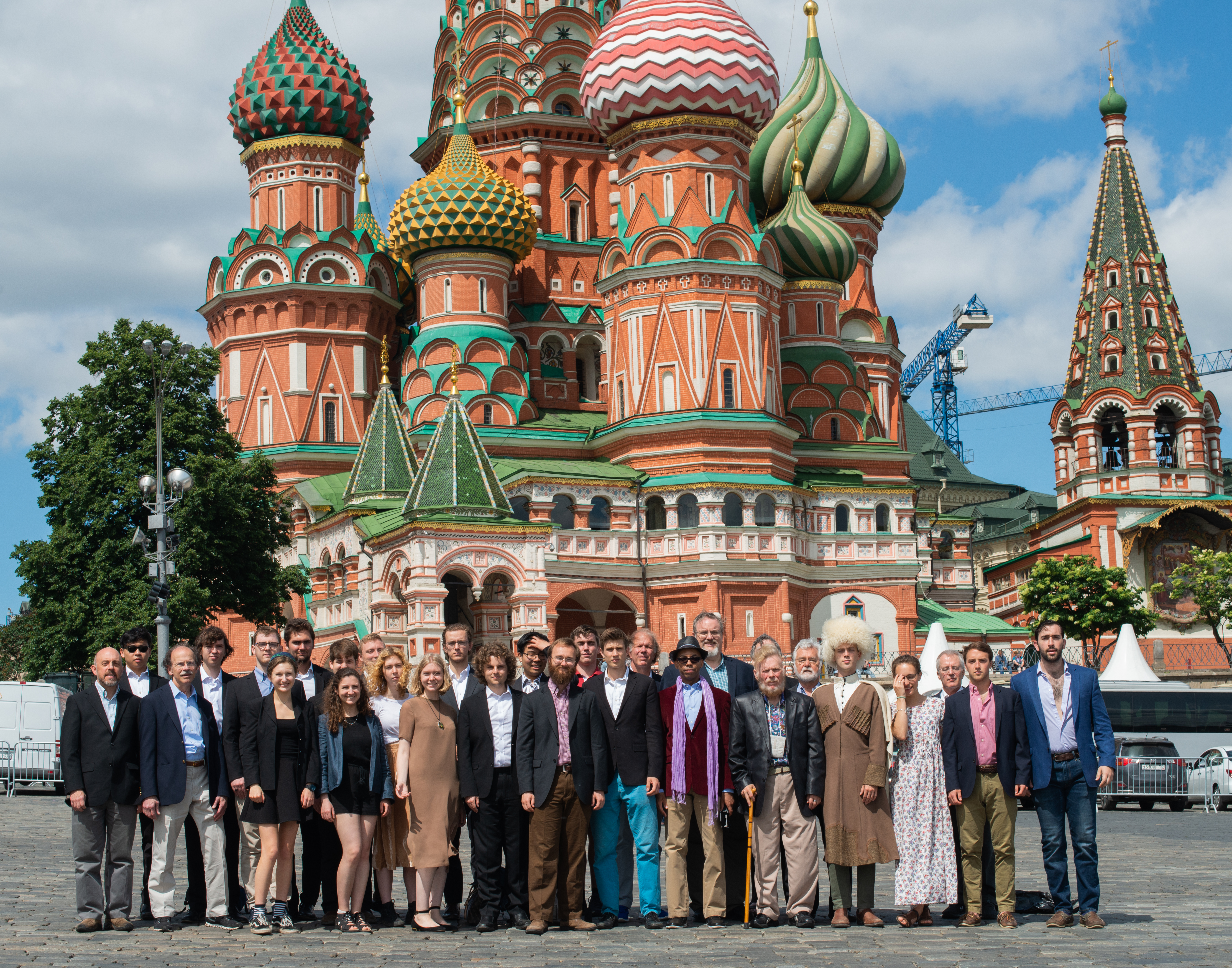 Former and current members of the Yale Russian Chorus in front of St. Basil's Cathedral in Moscow, 2019